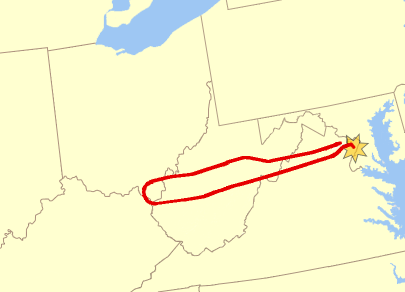 Manually remade in Inkscape after Image:911 commission UA175 path.png.